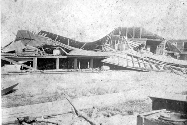 Railroad depot wrecked in storm- Carrabelle, Florida. Image taken